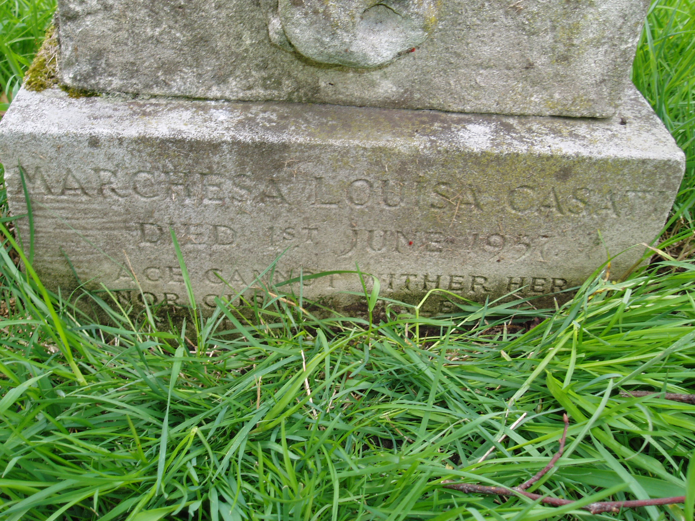 Close up view of the epitaph on Marchesa Casati's gravestone. Carved in this stone you can see the mis-spelling of her name and part of the quote: "Age cannot wither her, nor custom stale her infinite variety". Photograph by Simon Wass 2004.